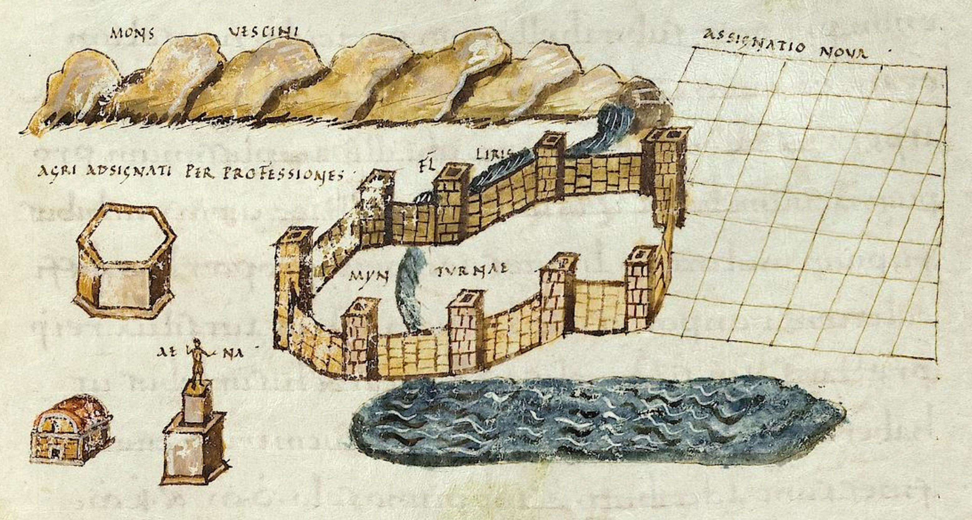 Minturnae (Codex Palatinus Latinus 1564, 88 recto)